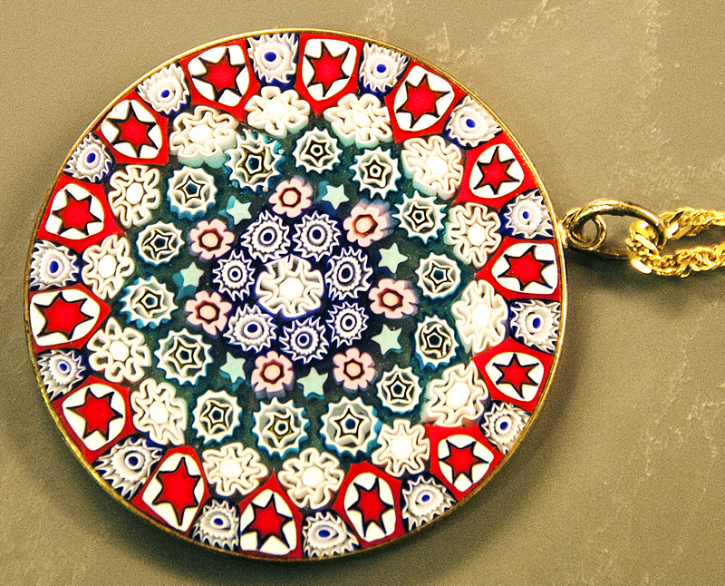 A small disc of millefiori-patterned glass. Approximately 1 3/4" in diameter.